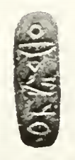 Base of a small seatite lion-shaped amulet of Nebmaatre, a rather obscure pharaoh of the 16th-17th dynasty, Second Intermediate Period. Petrie Museum, UC 11587.